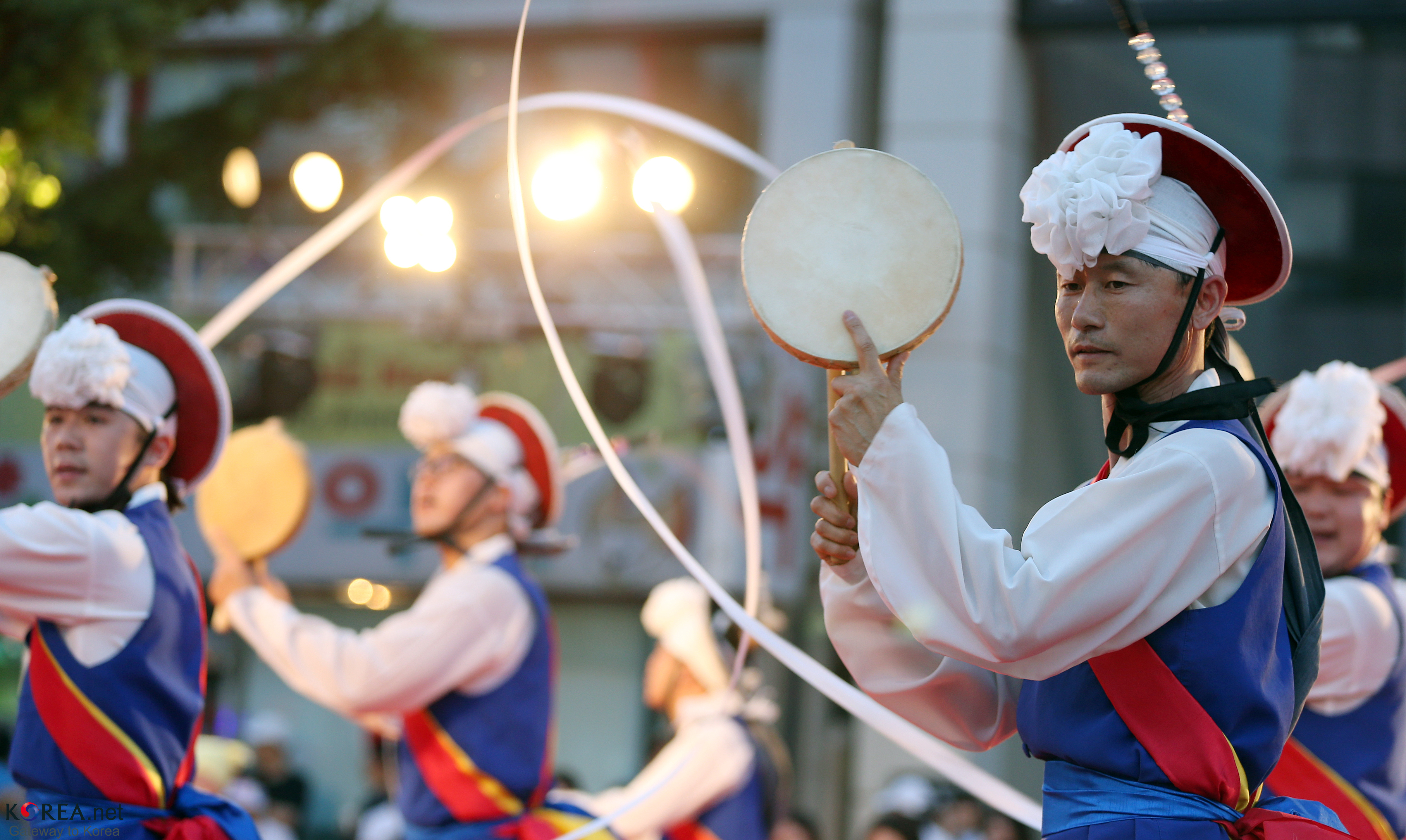 Exploring The UNESCO World Heritage in Korea 1st Program – ‘The Healing Festival Lasting 1,000 years’ Gangneung Danoje Festival & Jangneung(One of Royal Tombs of Joseon Dynasty) Gangneung Danoje Festival May 31, 2014 Gangneung-si, Gangwon-do Ministry of Culture, Sports and Tourism Korean Culture and Information Service ( Official Photographer: Jeon Han This official Republic of Korea photograph is licensed as free content, so while restrictions such as personality or privacy rights may apply, in general, manipulations are allowed. If you want a photograph without a watermark, you may ask via Flickr e-mail. 유네스코 세계문화유산 등재 유•무형 한국문화유산 심층탐방 첫 번째 프로그램 - ‘천년을 이어온 힐링 축제’ 강릉단오제와 장릉 강릉단오제 2014-05-31 강원도 강릉시 문화체육관광부 해외문화홍보원 코리아넷 전한